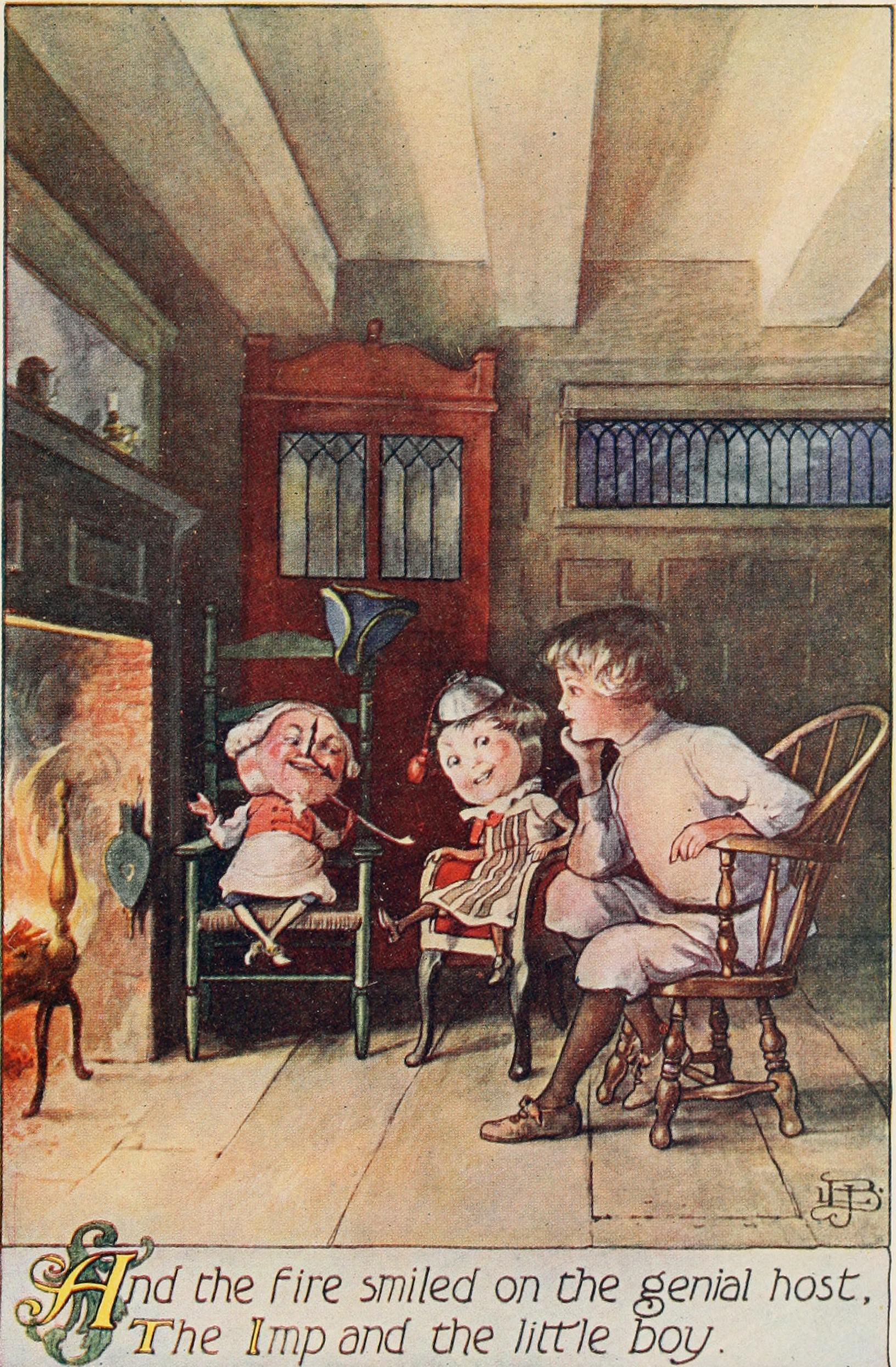 Title: King Time; or The mystical land of the hours, a fantasy Year: 1908 (1900s) Authors: Fitzhugh, Percy Keese, 1876-1950 Subjects: Publisher: New York and Boston, H.M. Caldwell company Text Appearing Before Image: Well take that in, laughed the gay little Imp, Is there any especial date? For were on our way to Tickerleen; How long shall we have to wait? They meet, said the host, as I understand, On Fridays, at half-past eight. And the train next starting for Tickerleen, — May I ask you when that will leave? The train will depart, - - now, let me see, On Saturday, I believe. It will get back here at Saturday noon, And start on Saturday eve. *68 Text Appearing After Image: d the fire smiled on the genial host. The Imp and the little boy. THE IV •••PUBLIC LIP KING TIME Ah, that will be fine! said the little Imp, And our plans will come out just right; It's Thursday now, and we'll do the club When it meets tomorrow night, And t-night we'll stay in this cosy inn, And sit by the fire bright. So they drew close up to the cheerful blaze, And the host began to employ The time in relating many tales Which the child received with joy; And the fire smiled on the genial host, The Imp, and the little boy. And the sound borne in on the soft, still air From the drowsily chiming bell, Seemed to say, Those good, old-fashioned tales Are ones that / know quite well, For they're all about things I saw myself In the village of Minutel. May I ask you, please, said the little boy, There's a story of old folklore That I heard about, and I want to know — Would you tell me just one more? Its the legend about those funny roads In the Land of Tockerlore. 69 KING TIME I will, said